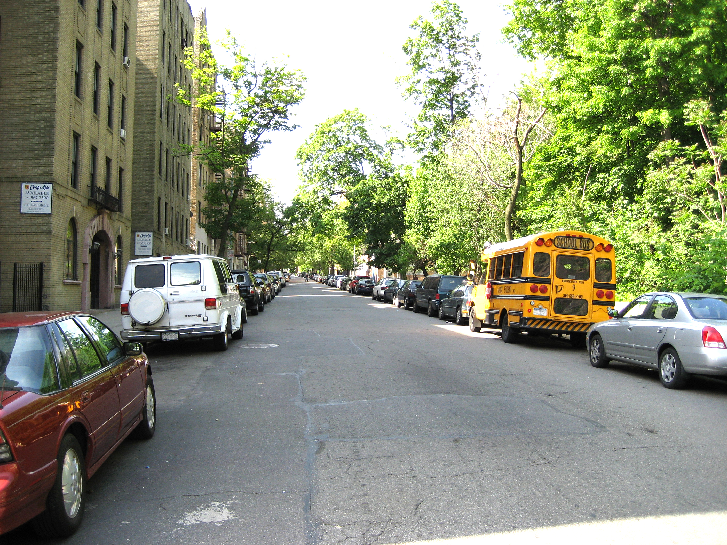 Washington Heights, Manhattan - Looking south on Bennett Ave at 192nd Street